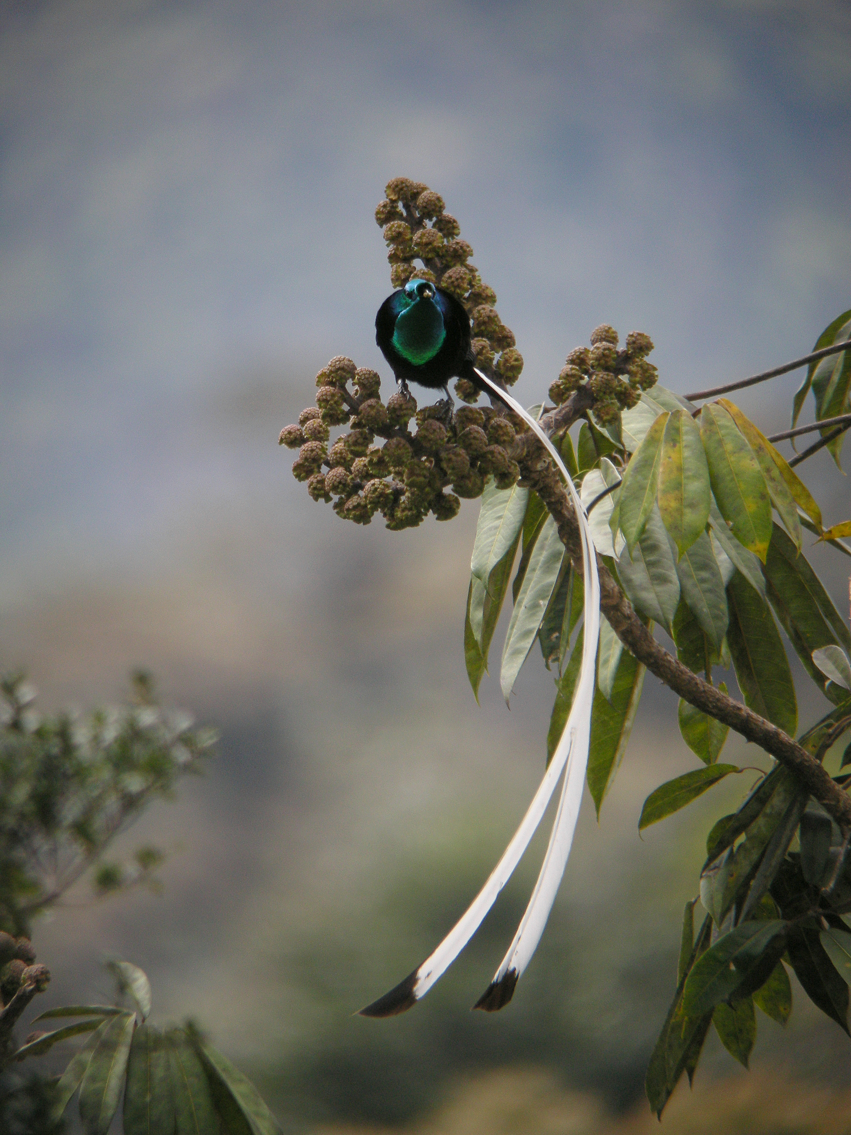 Ribbon-tailed Astrapia Astrapia mayeri on Schefflera sp.